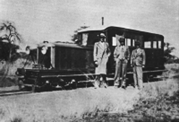 Otavi Mining and Railway Company (OMEG): Gasoline Railcar (1914)